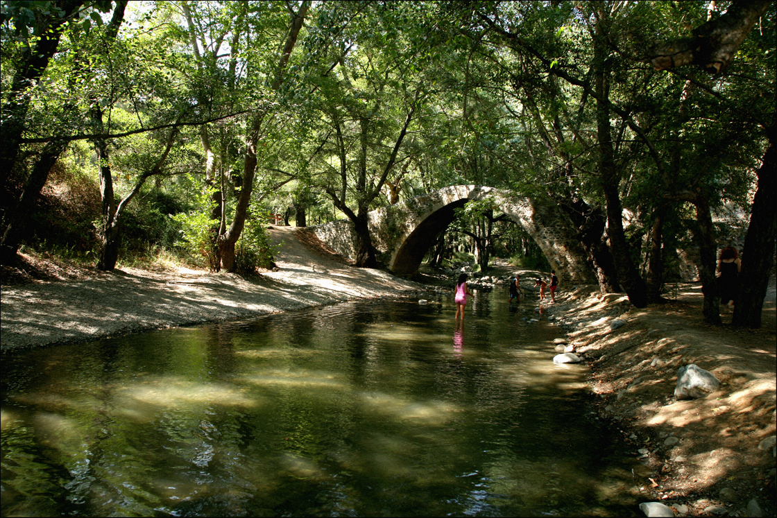 Kids playing in the water at Tzielefos locality, the ancient bridge been built during the Venetian rule of Cyprus (1489 - 1571). Diarizos river, Paphos forest, Cyprus.